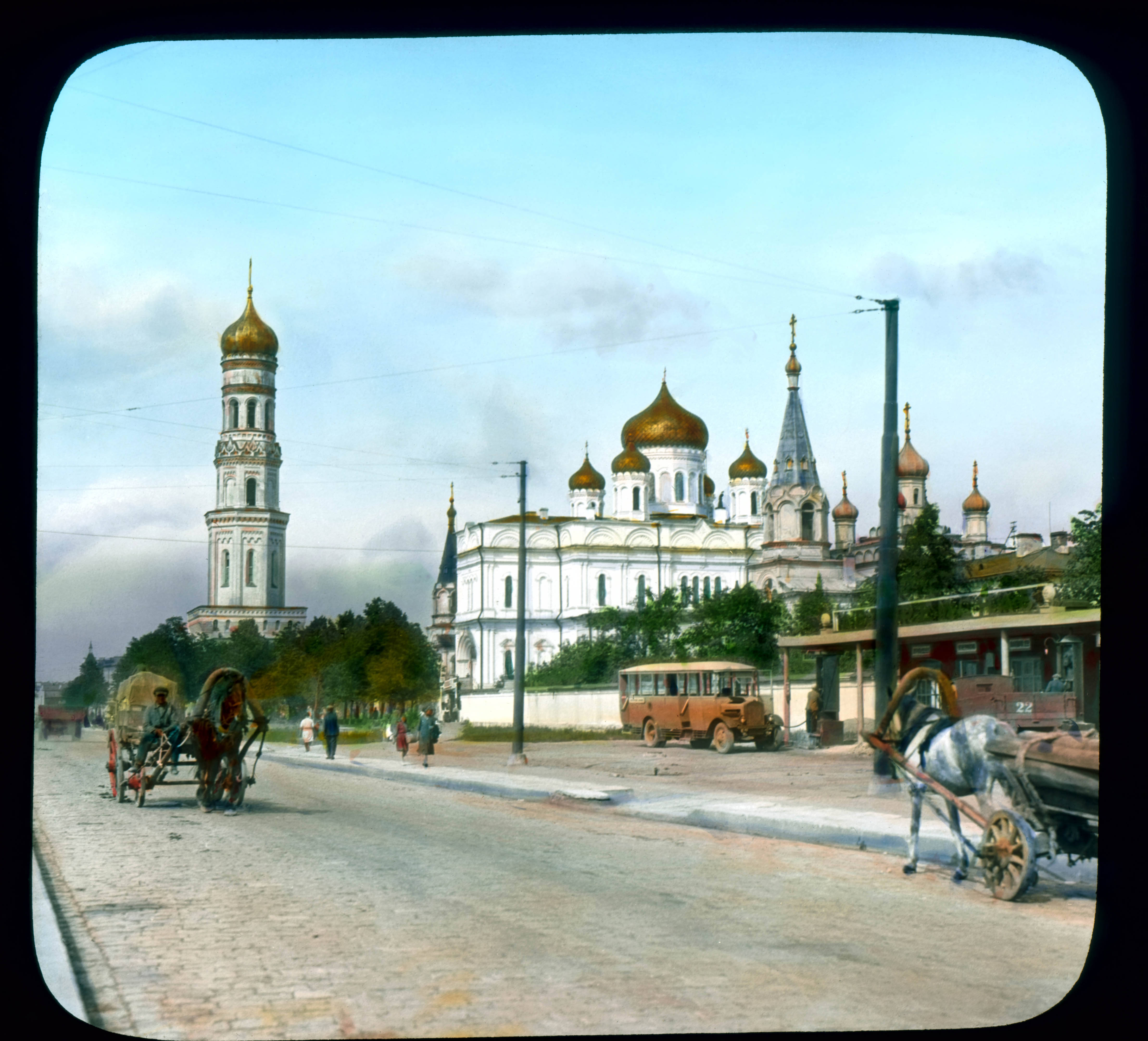 Saint Petersburg. Moskovsky Avenue view of street, with Novodevichy Convent